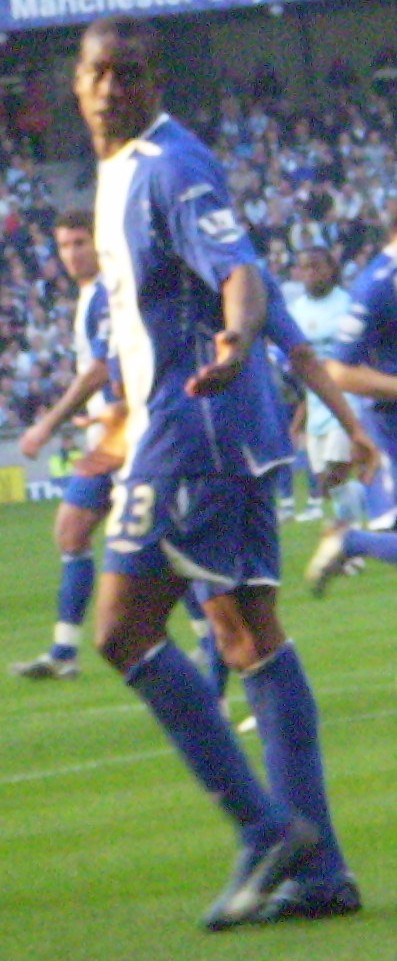 Olivier Kapo playing for Birmingham City at Manchester City